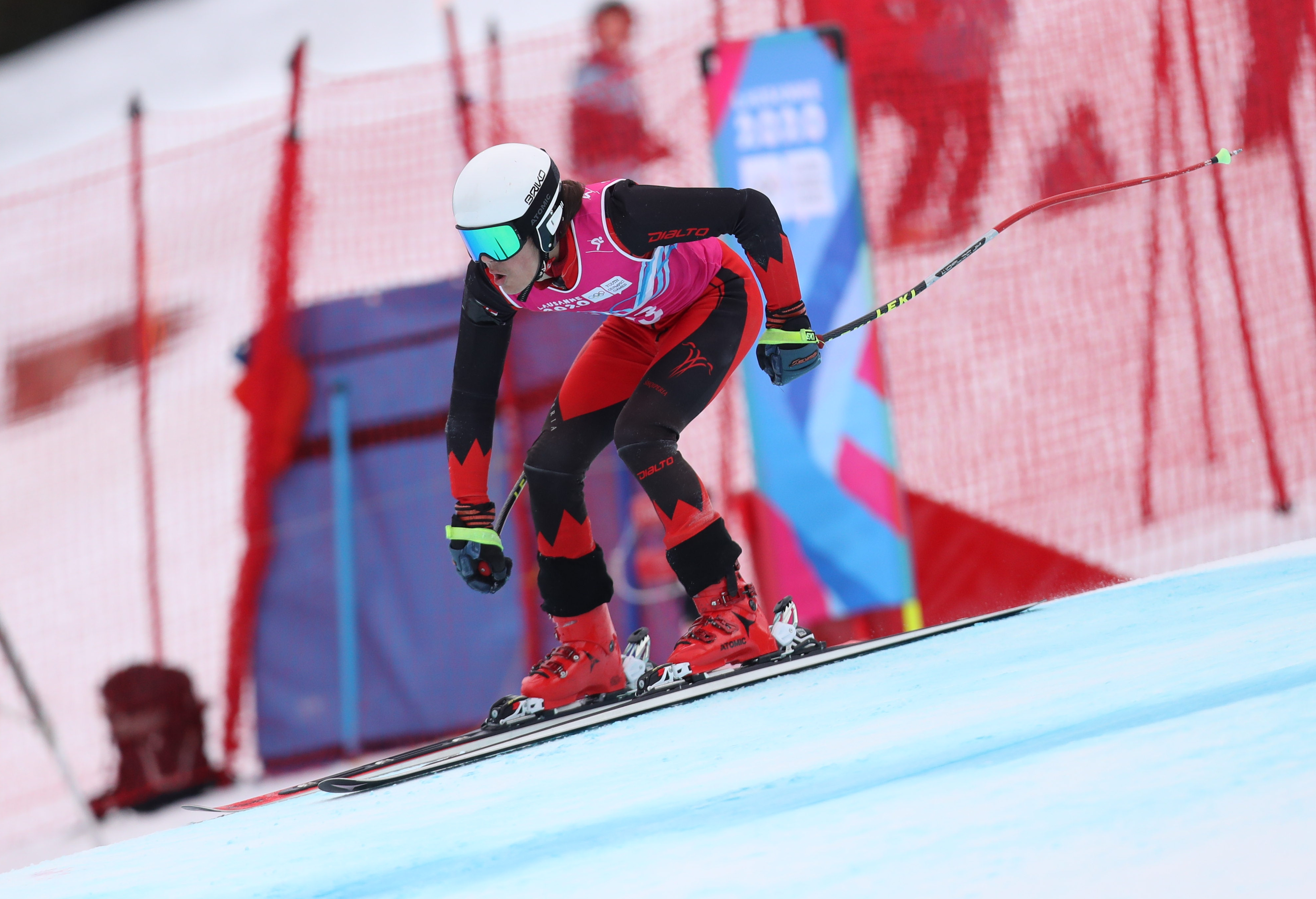 Men's Super G at the 2020 Winter Youth Olympics in Lausanne